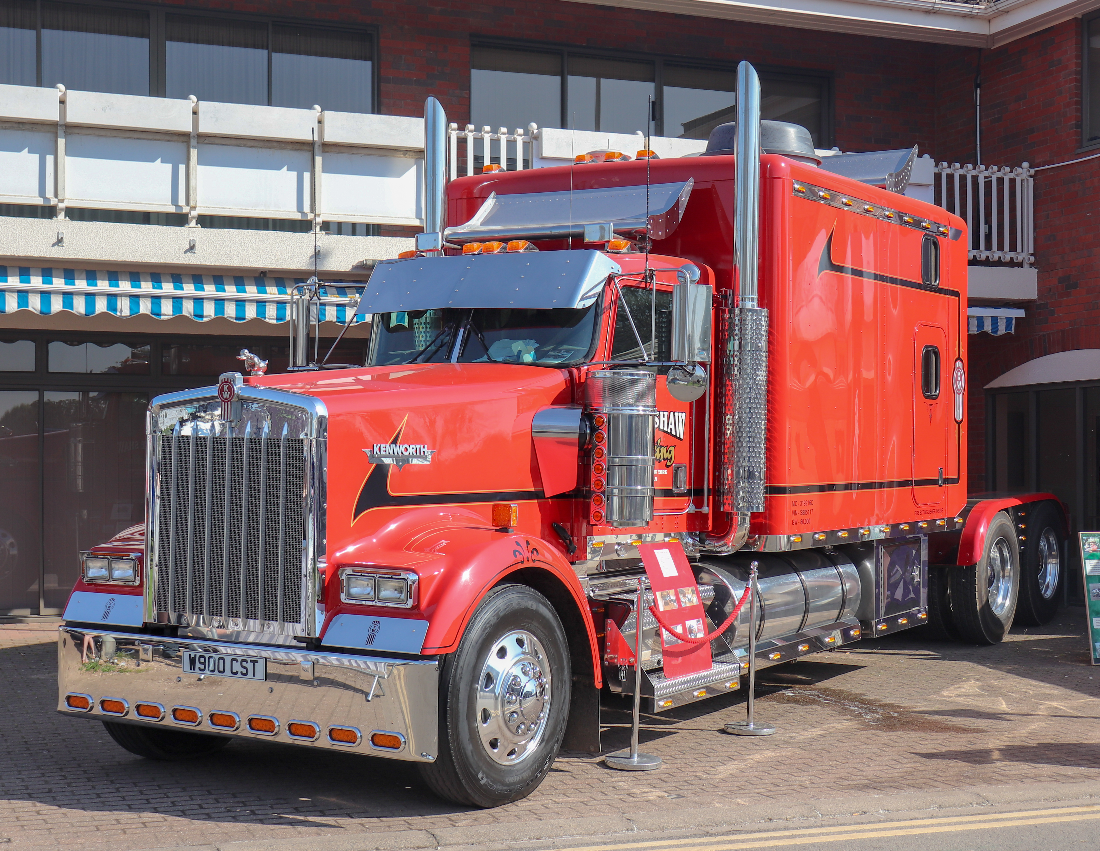 2002 Kenworth W900L Taken at the Midlands Auto Fest 2019 NAEC Stoneleigh, Stoneleigh, Coventry